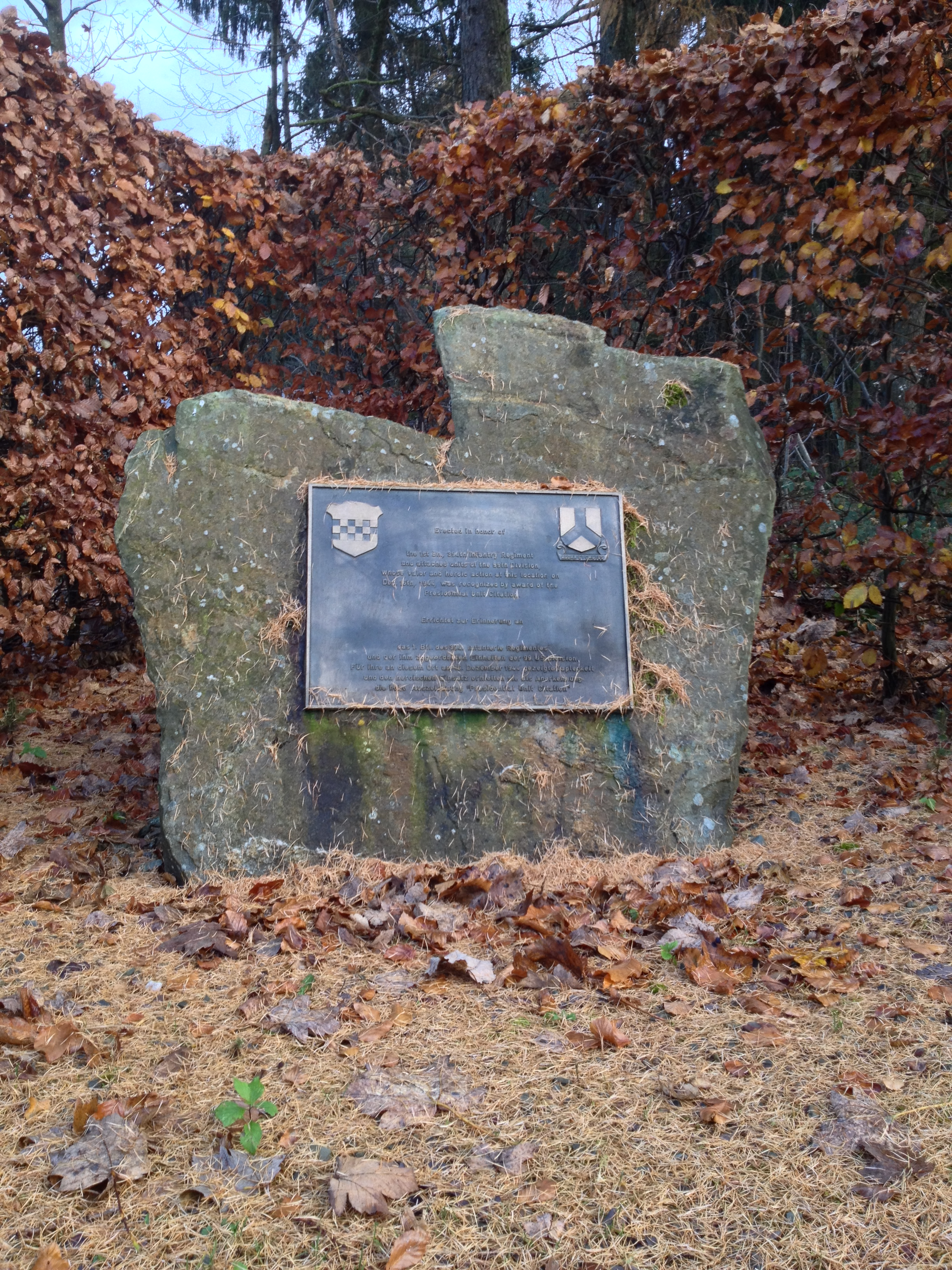 394 Infantry Regiment Presidential Unit Citation at Losheimergraben for Battle of the Bulge